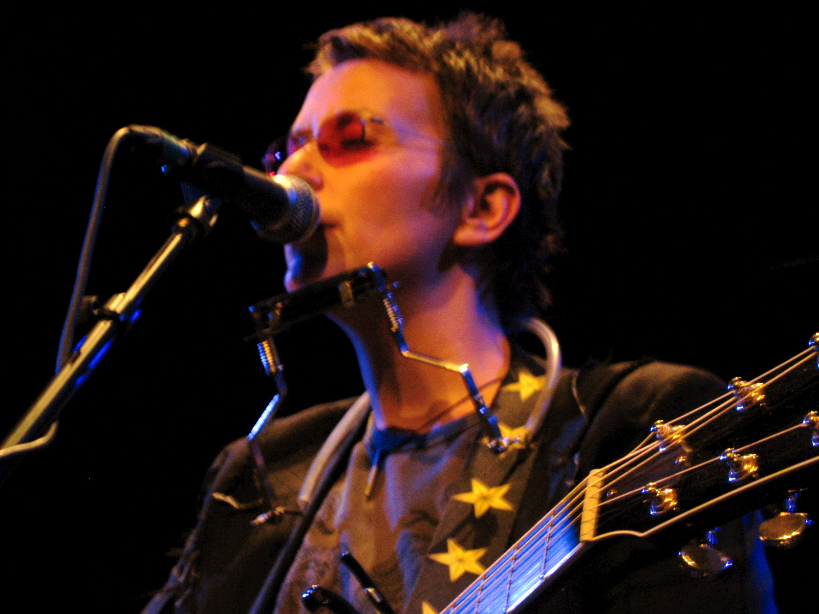 Mary Gauthier @ Roots of Heaven festival in Haarlem, the Netherlands